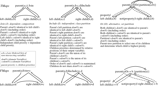 Shows the three primitive control structure and their rules that form a universal foundation for constructing maps in the domains of time and space as FMaps and TMaps as used in the Universal Systems Language